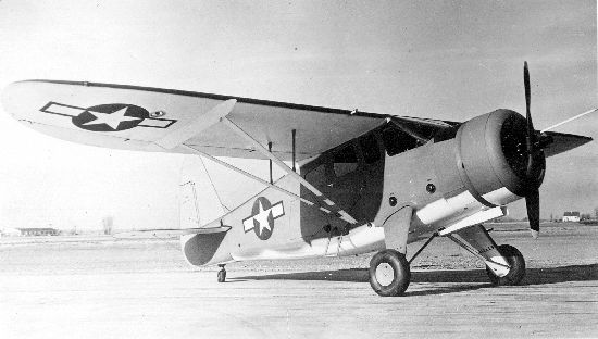 Howard GH-2 "Nightingale" air ambulance plane.